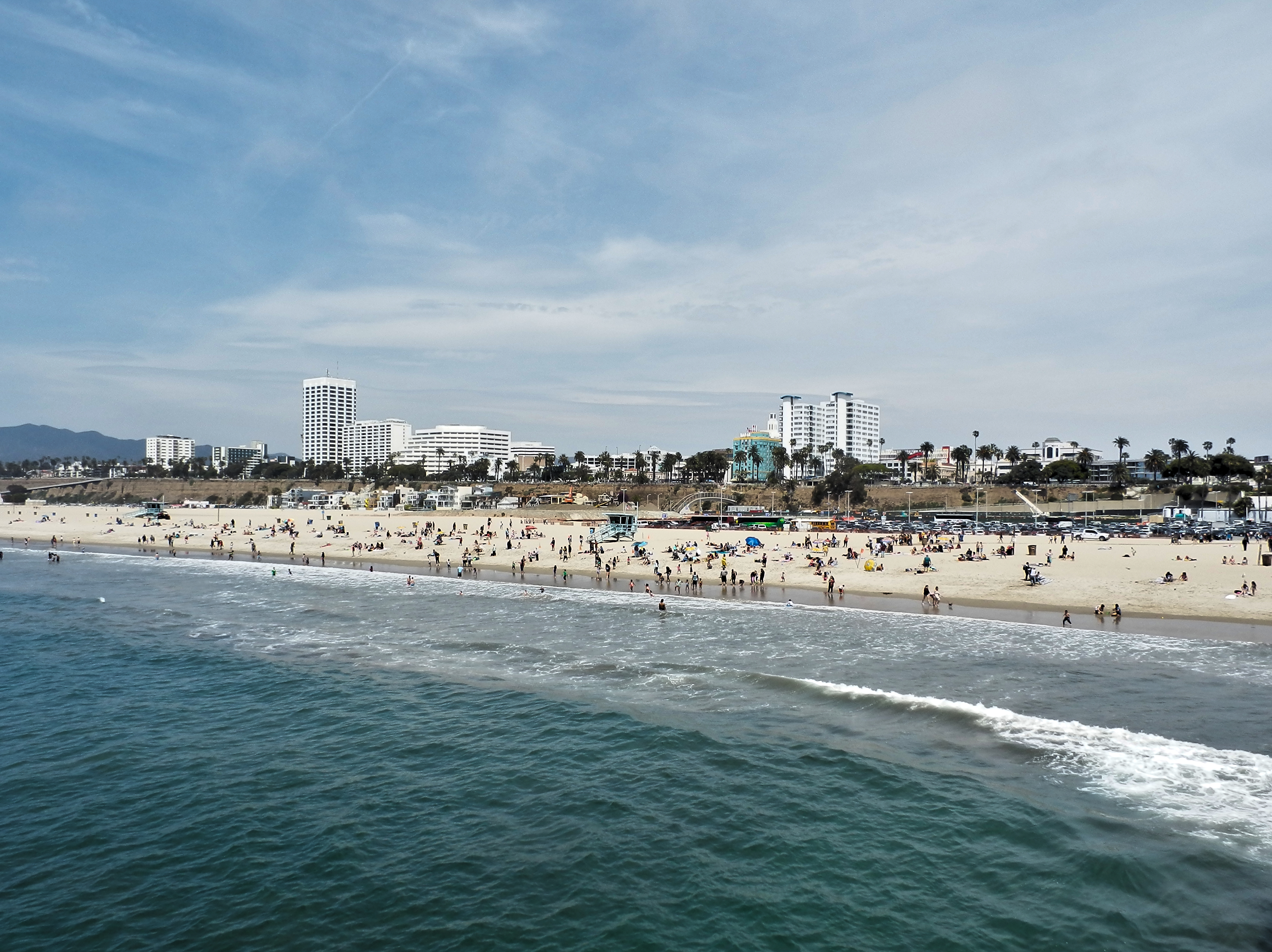 Santa Monica State Beach